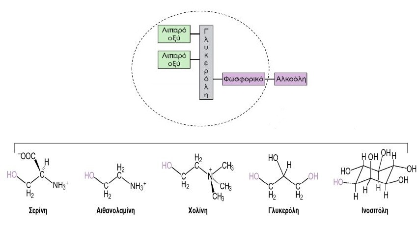 Phospholipids